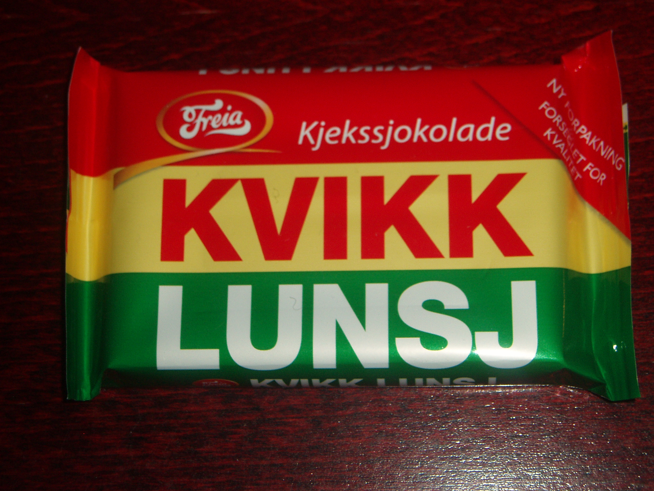 Norwegian chocolate "Kvikklunch".